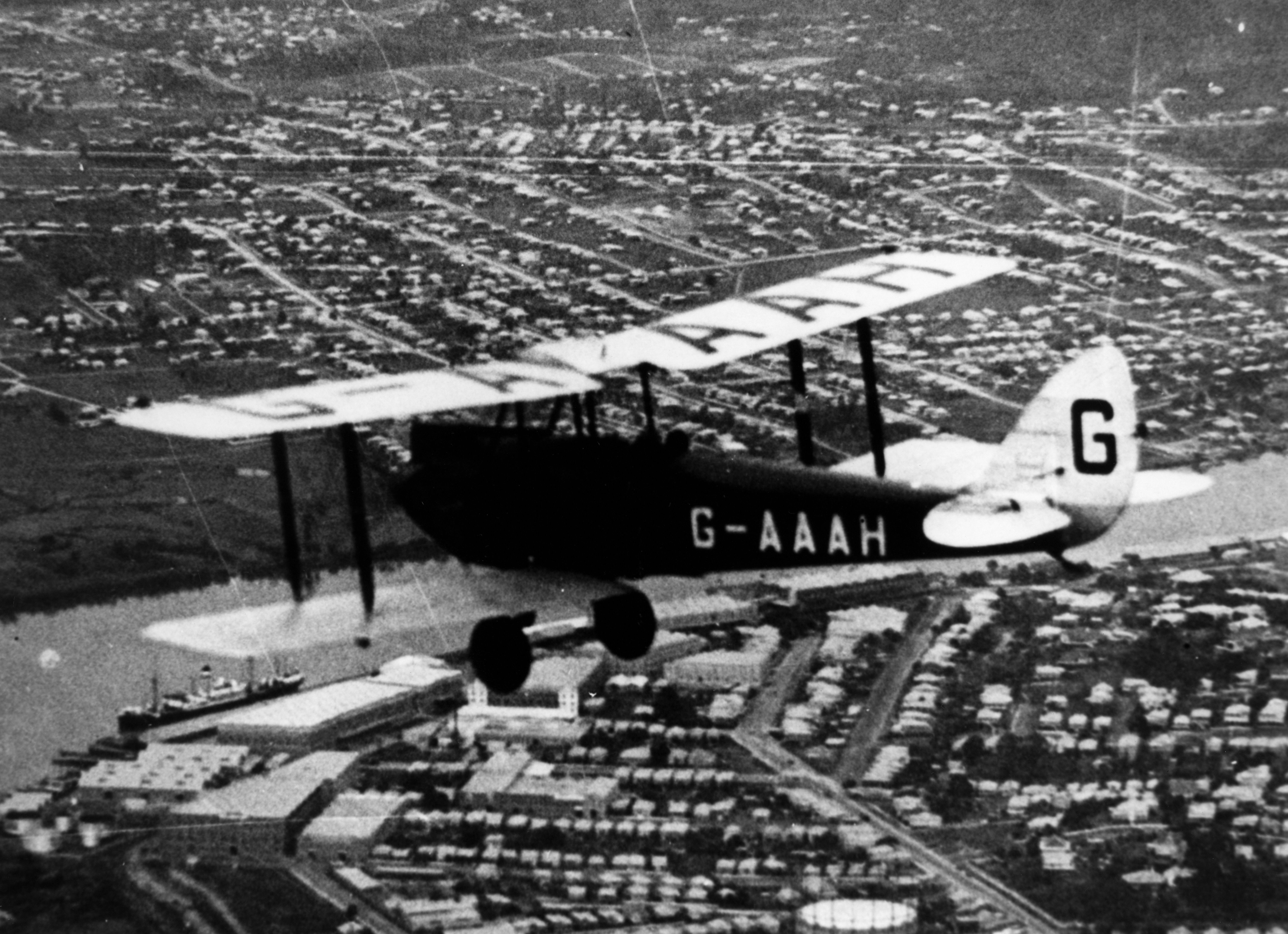 Aerial view of Hawthorne taken in 1930. View includes the bi-plane G-AAAH in flight.